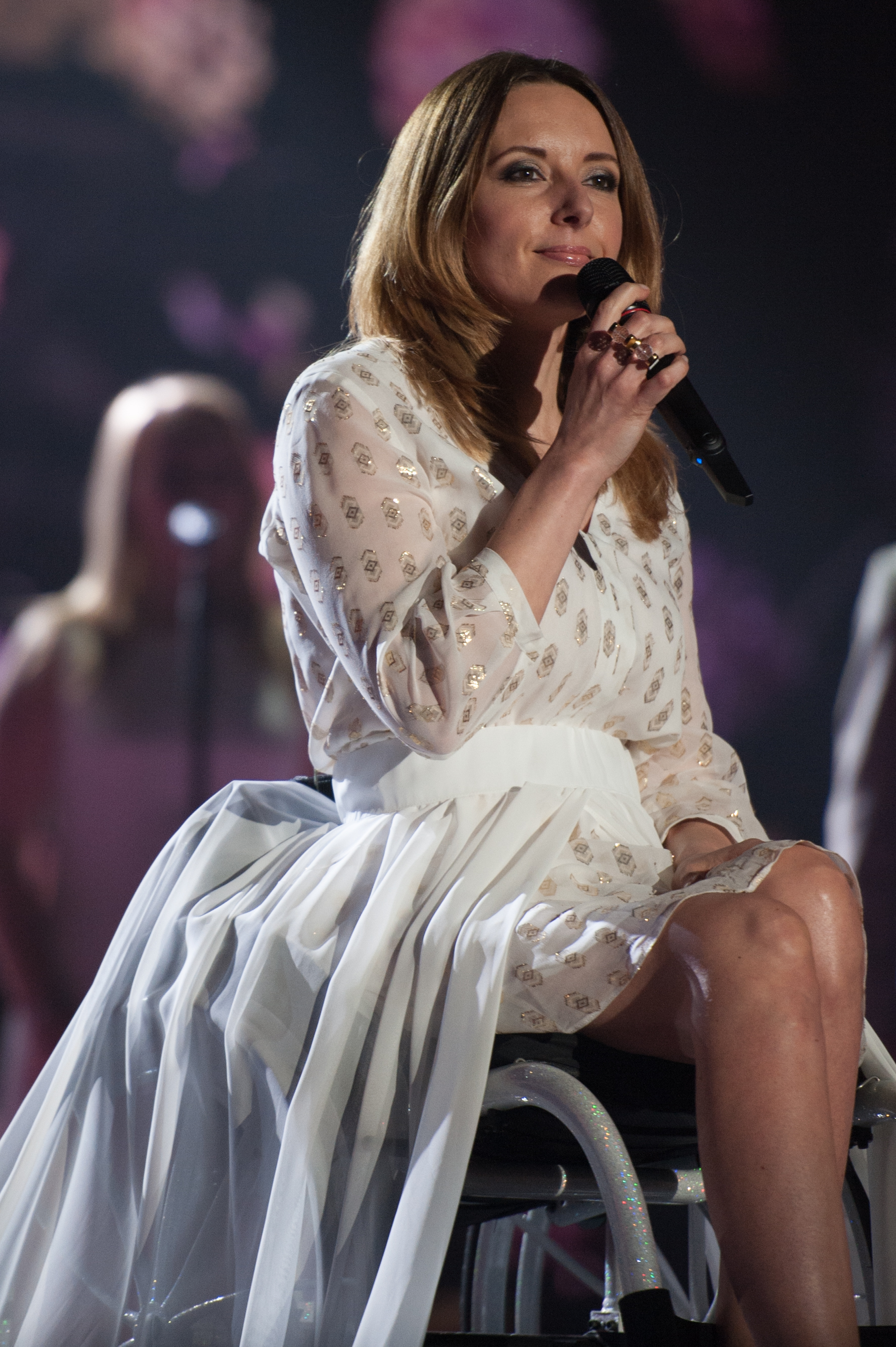 Eurovision Song Contest Vienna 2015: Monika Kuszyńska